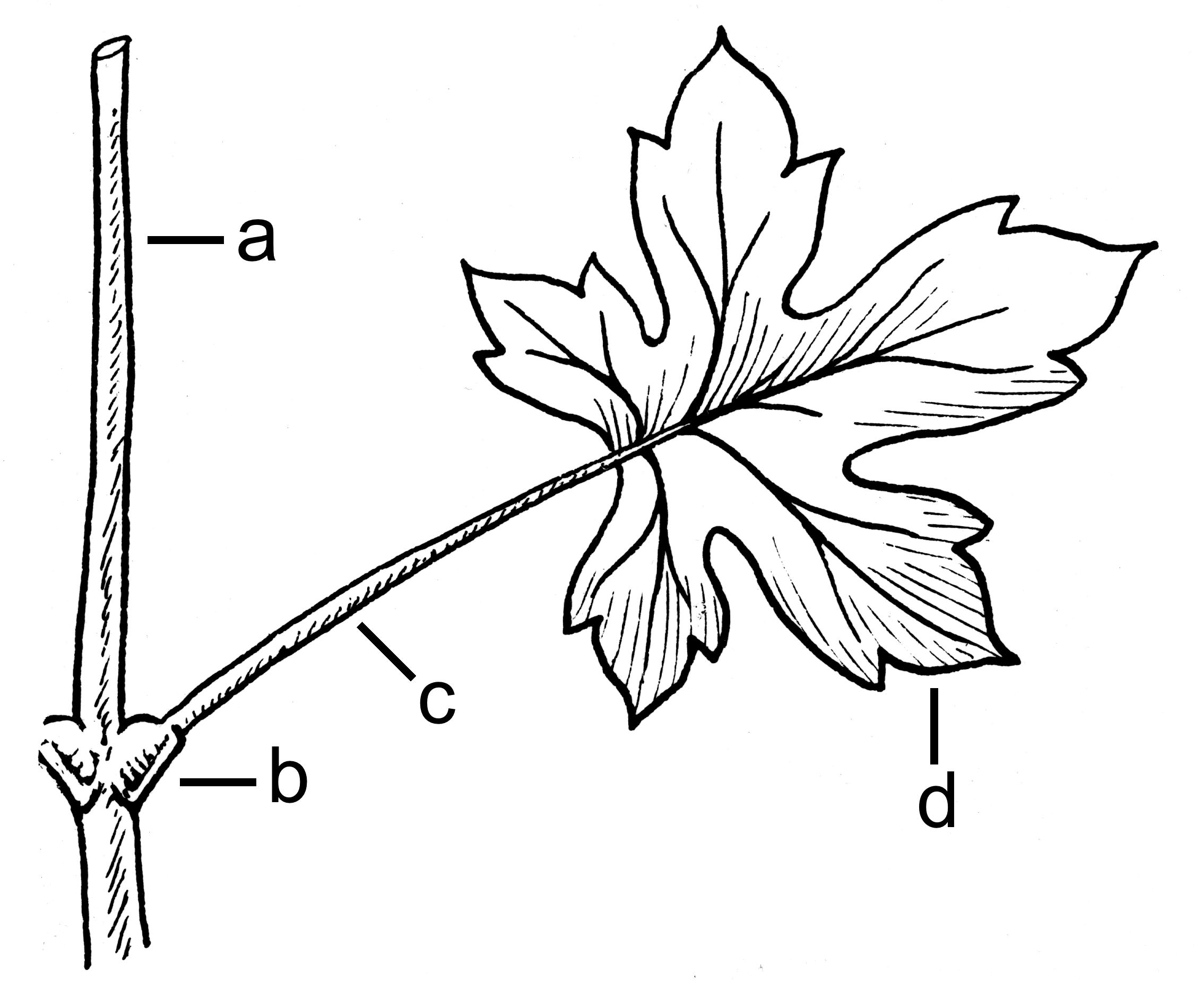 Parts of a simple leaf: a) plant stem; b) leaf axil; c) leaf stalk; d) leaf blade.